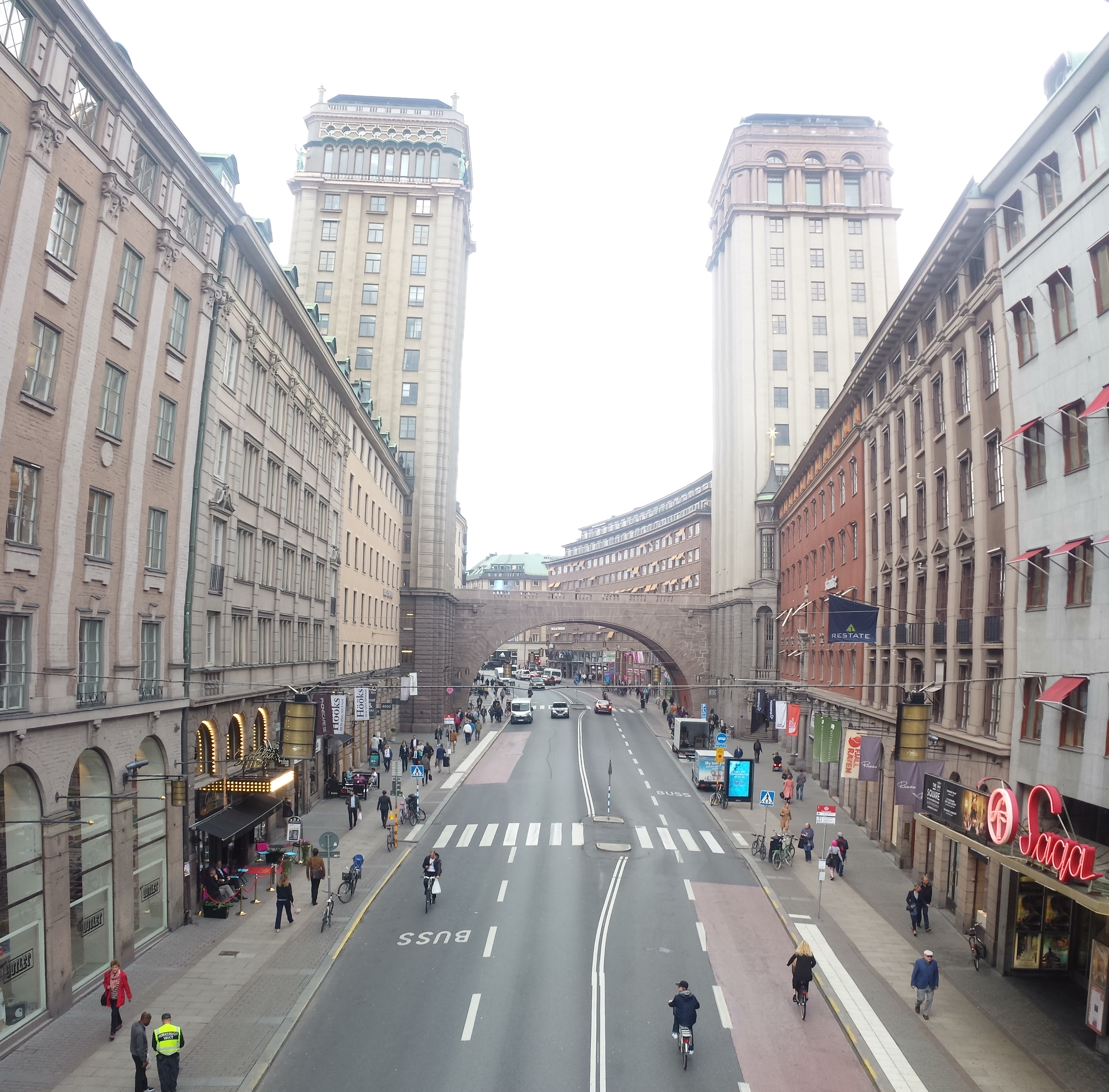 The Malmskillnad bridge, which takes the street Malmskillnadsgatan over Kungsgatan.